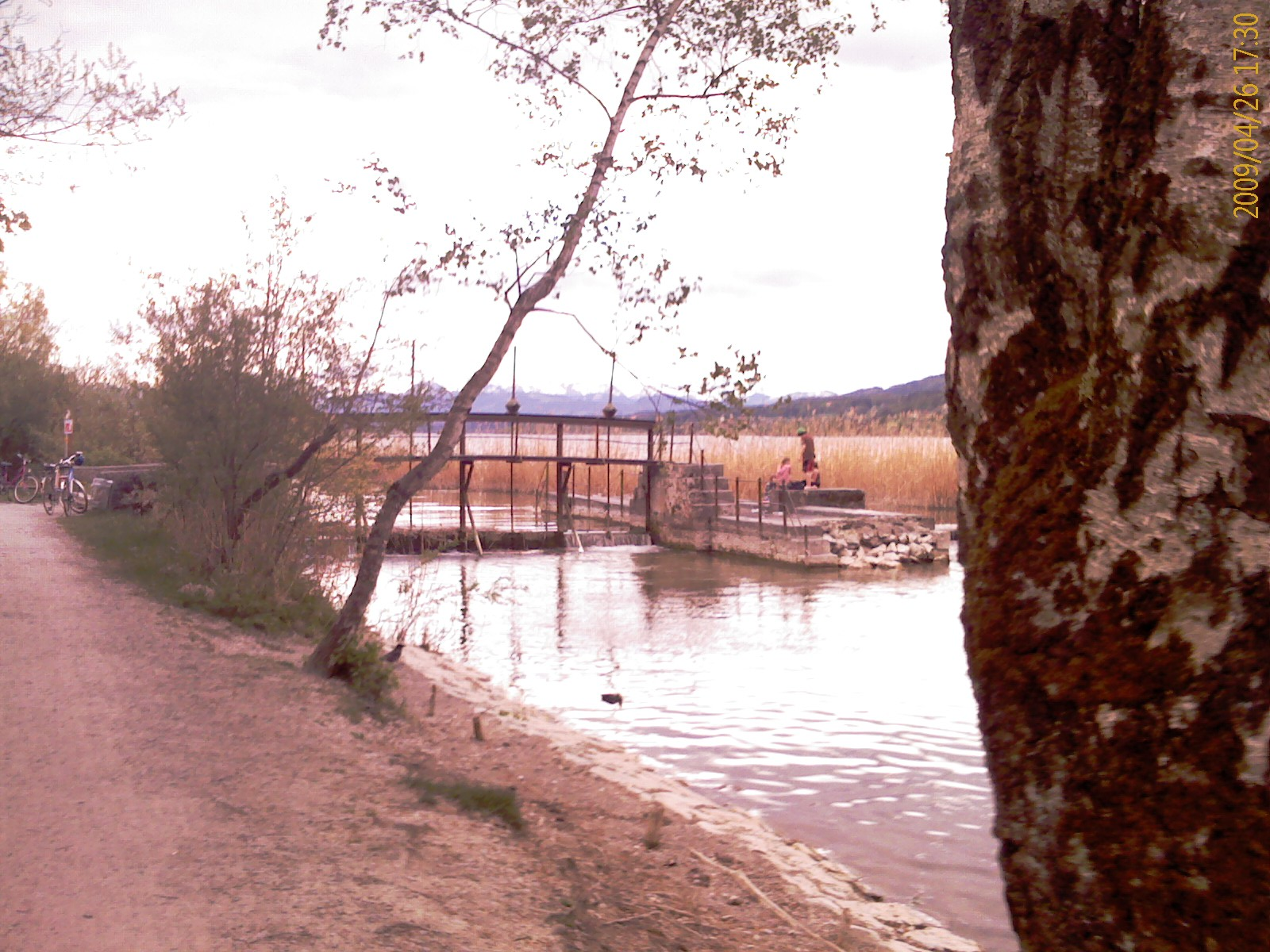 Weir at the outflow of the river Glatt from lake Greifensee, canton of Zürich, SwitzerlandEsperanto: Vejro cxe la elfluo de rivero Glatt el lago Greifensee, Kantono Zuriko, Svislando